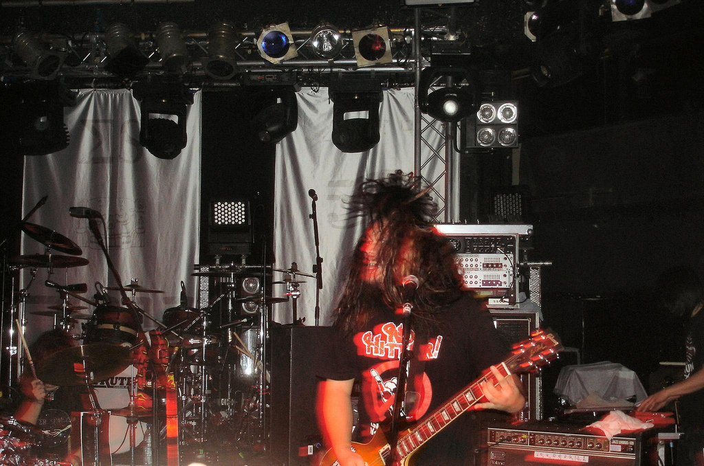 Enter Shikari, DJ Pdex, Maximum the Hormone & An Albatross Perform at the Astoria 2 on 3rd Oct 2008. Enter Shikari, DJ Pdex, Maximum the Hormone & An Albatross Perform at the Astoria 2 on 3rd Oct 2008.